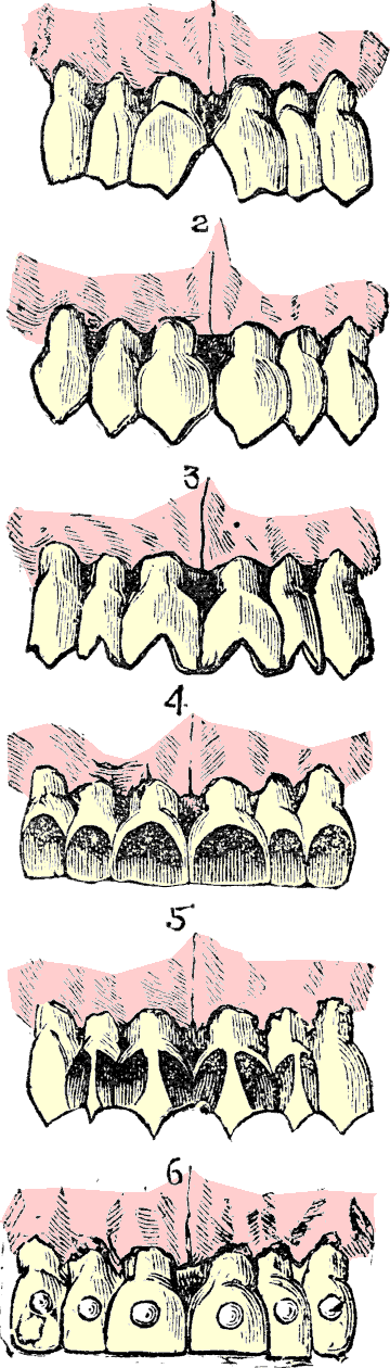 Teeth. Upper front teeth altered according to fashion. 1, 2, 3, Afican; 4, 5, 6, Malay.